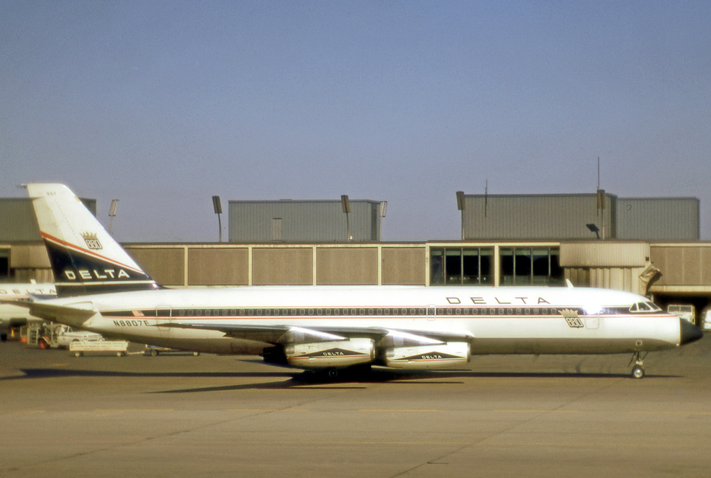 Convair 880 N8807E of Delta Air Lines at Chicago O'Hare Airport on 24 April 1971